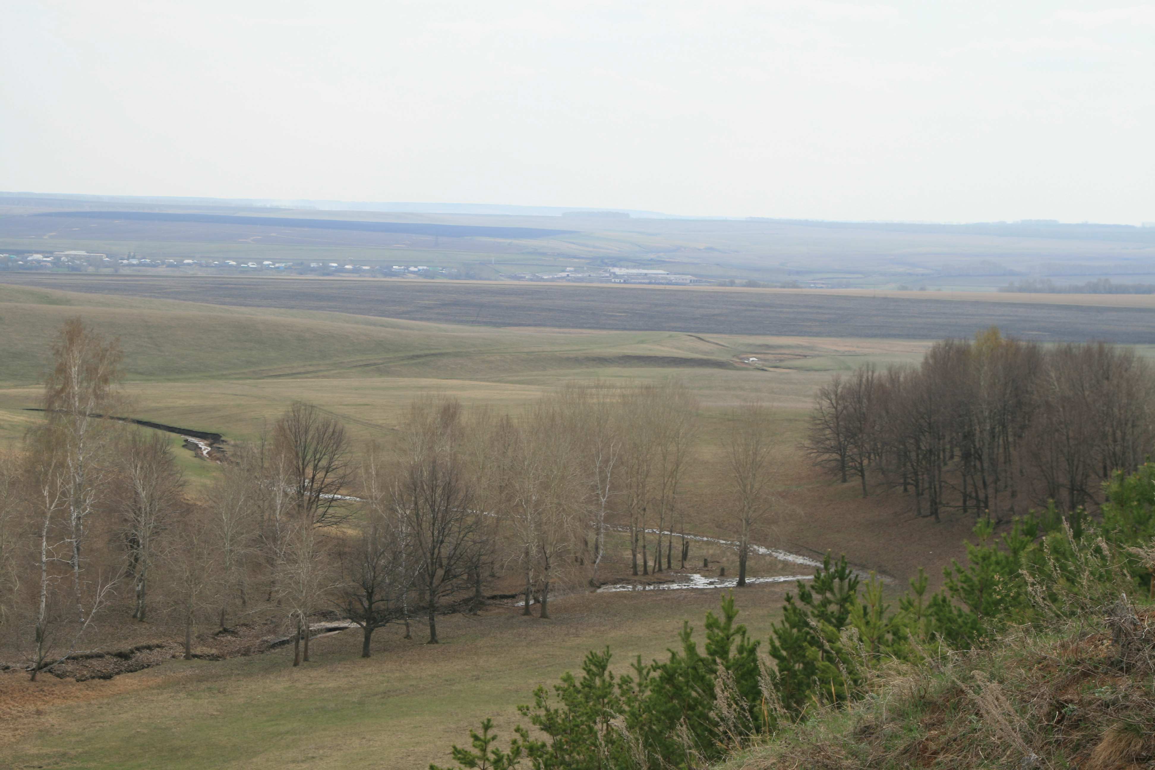 Chekmagushevsky District, Republic of Bashkortostan, Russia